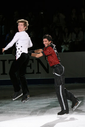 Evan Lysacek throws Jeffrey Buttle into an Axel jump during the exhibition at the 2008 Four Continents Figure Skating Championships.